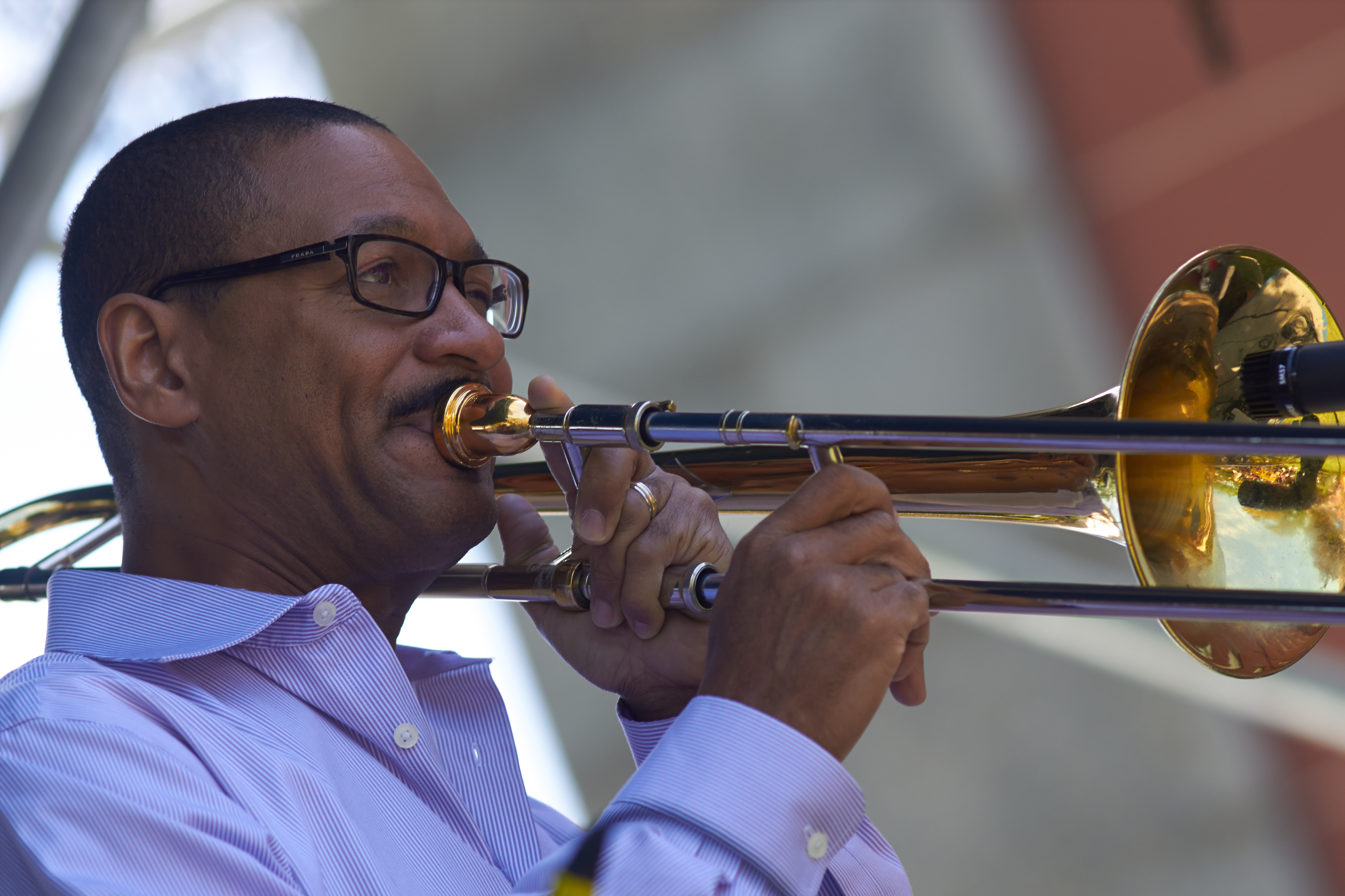 Delfeayo Marsalis playing with Ingrid Lucia band, French Quarter Fest, New Orleans